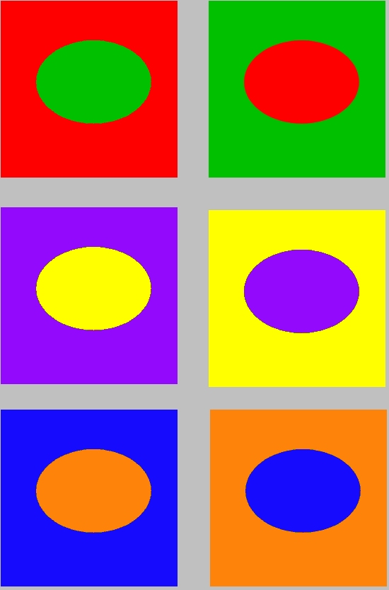 Contrast of complementary colors